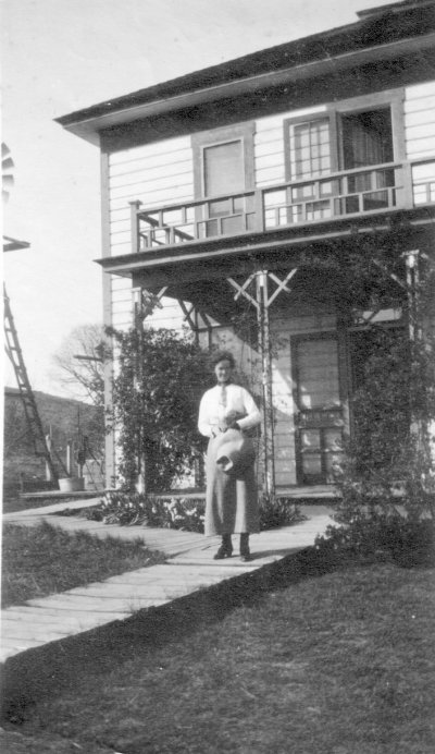 Undated (early 1900s) photograph of Alma Greenlee, daughter of James C. Greenlee, onetime proprietor of the General Store and Post Office at Boyd, taken in front of the Greenlee family home in Boyd, unknown photographer, from the collection of Inez R. Gilhousen, held by the Gilhousen Family Association. Digital file (c)2005 GFA with permission to distribute freely per GFDL. Notification of use, attribution and linkback requested, but not required.